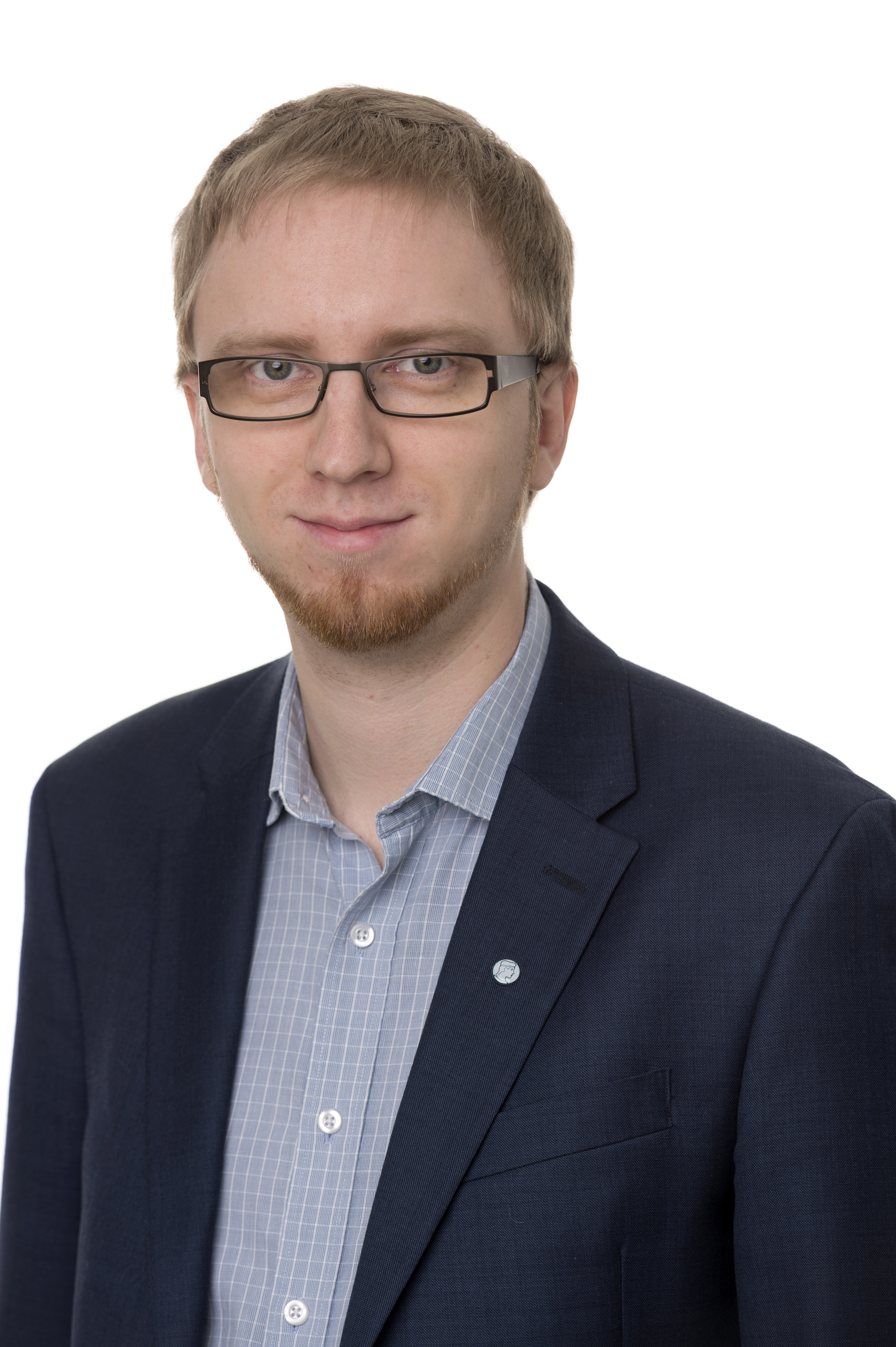 The Finns Party politician Simon Elo.